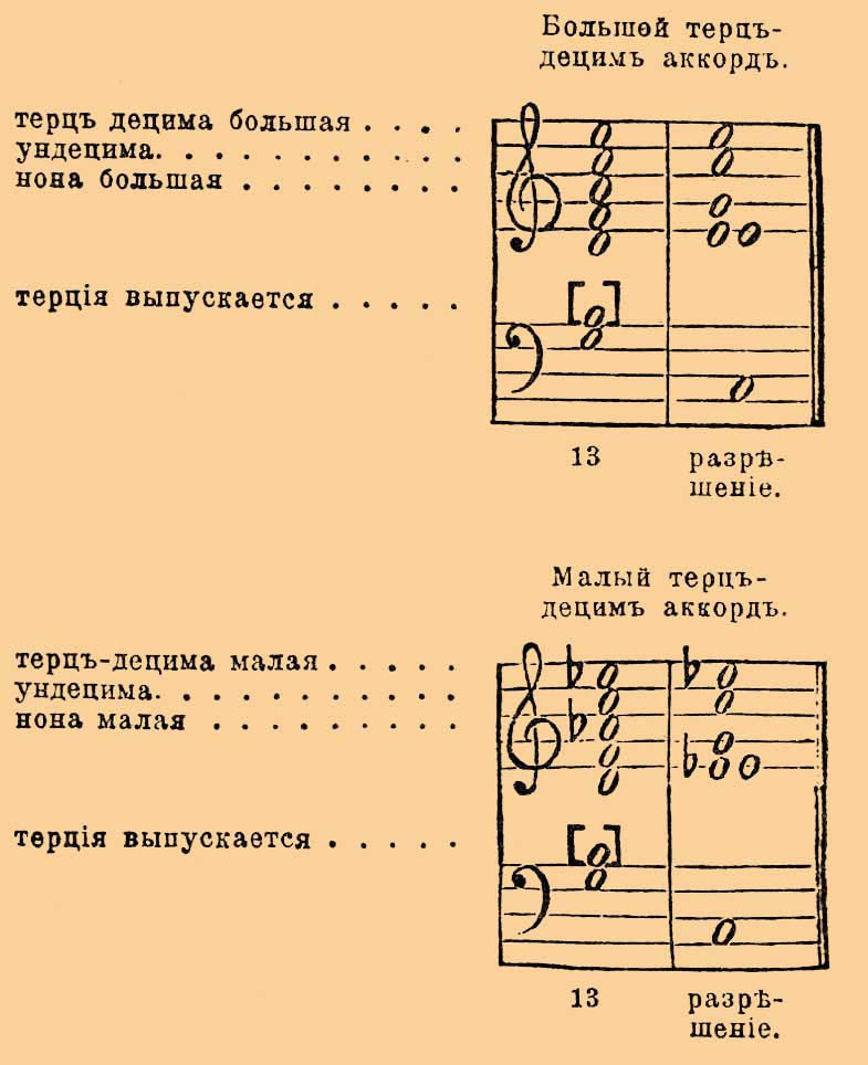 Illustration from Brockhaus and Efron Encyclopedic Dictionary(1890—1907)